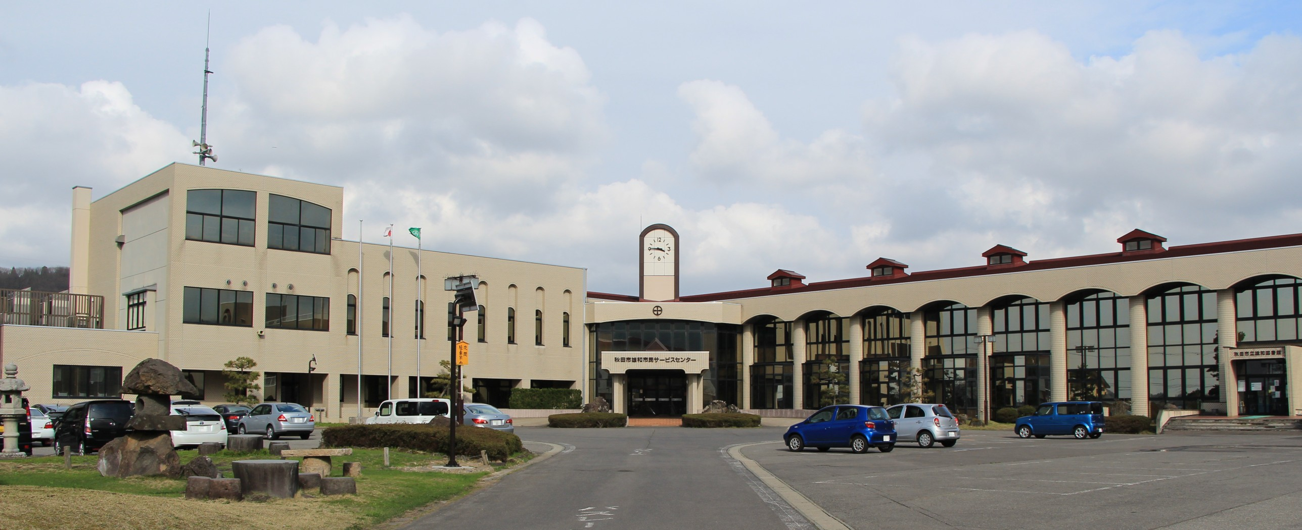 Akita city Yuwa Citizen Service Center (YUVICE), taken on April 30, 2013..